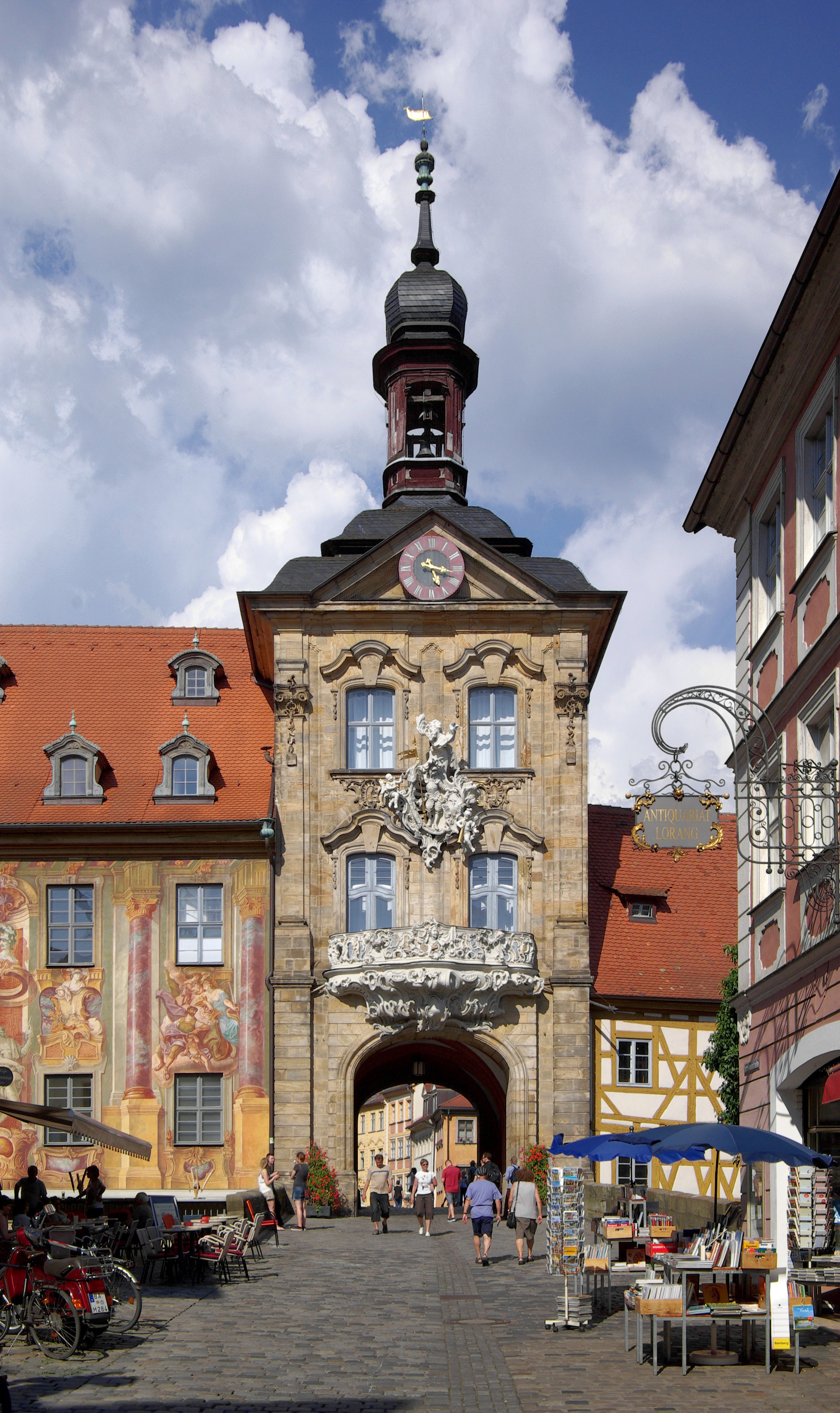 The old town hall of Bamberg, Bavaria.